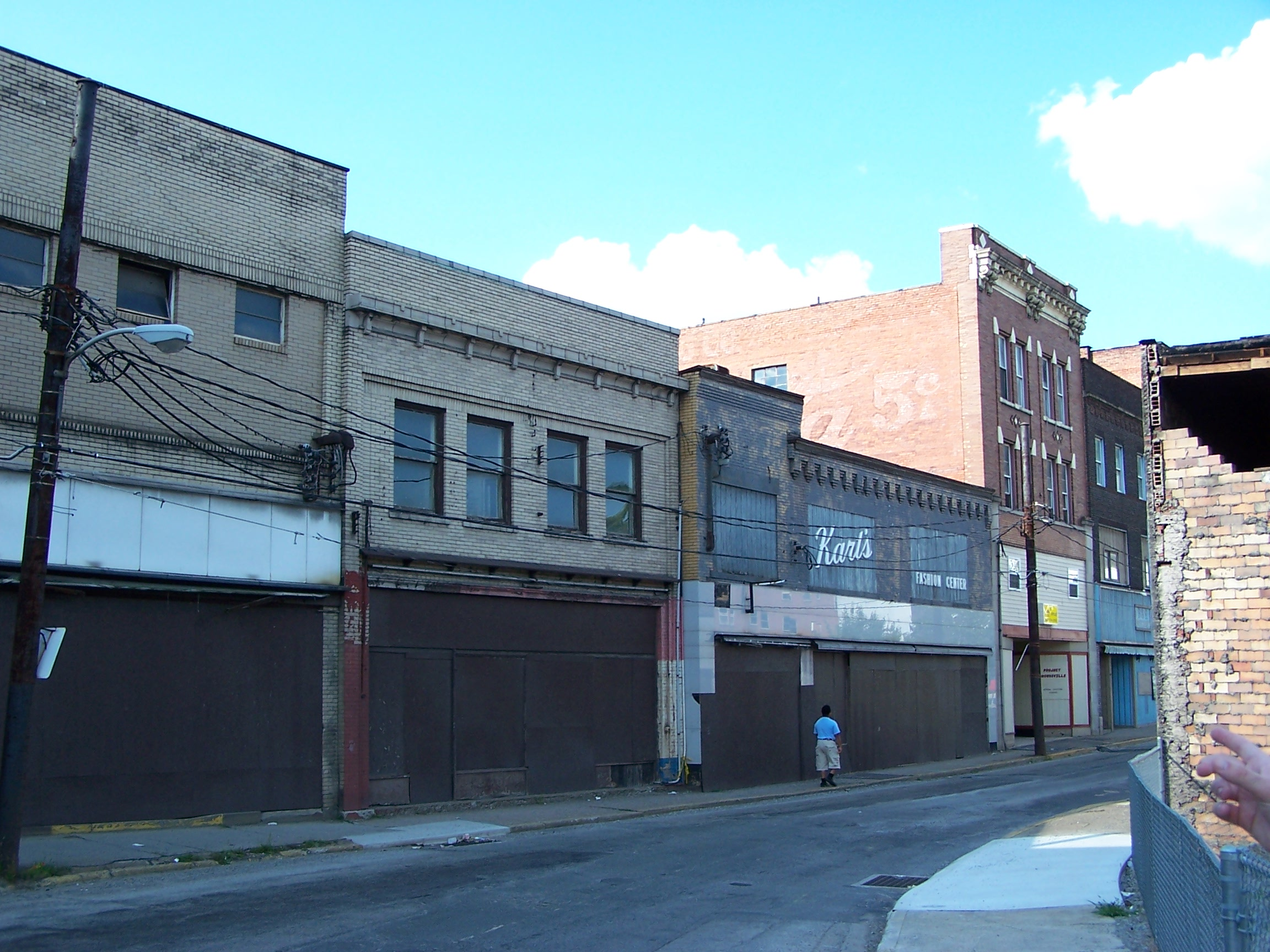 Brownsville, PA - Market Street facing northeast from Dunlaps Creek Bridge